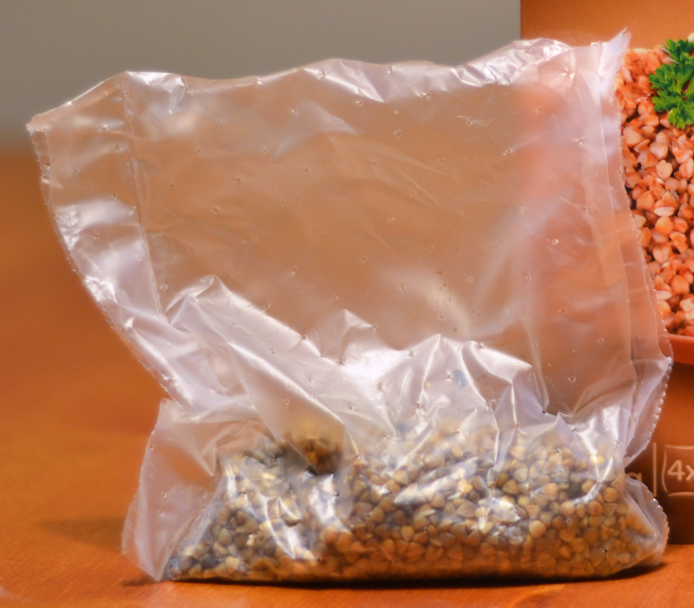 Roasted buckwheat Boil-in-Bag, Carrefour brand, box and bag